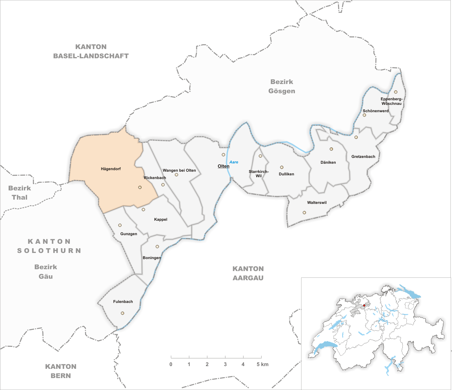 Municipality Hägendorf